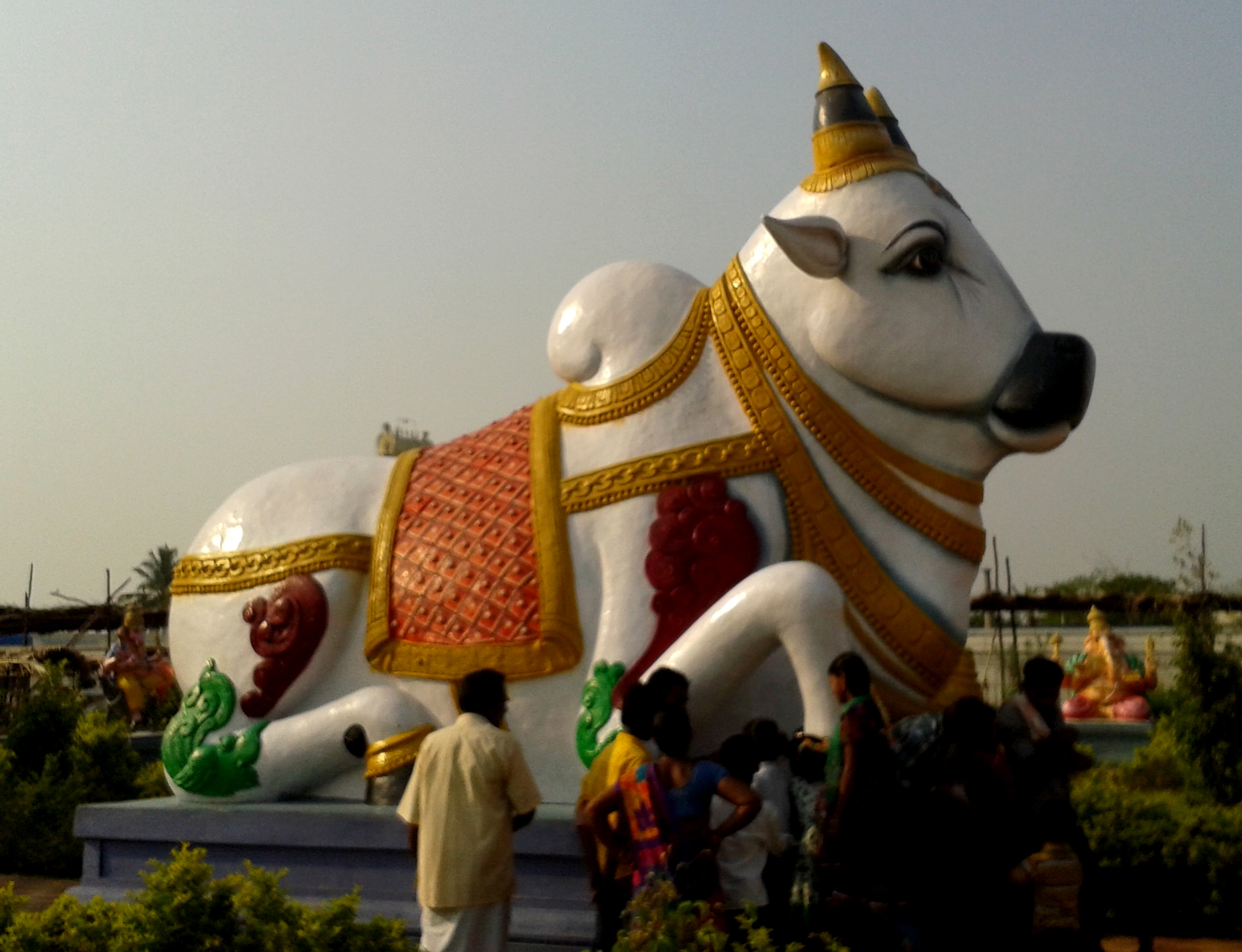 Statues of Hindu Deities at Lord Shiva Temple in Kanipakam in Chittor district, Andhra Pradesh